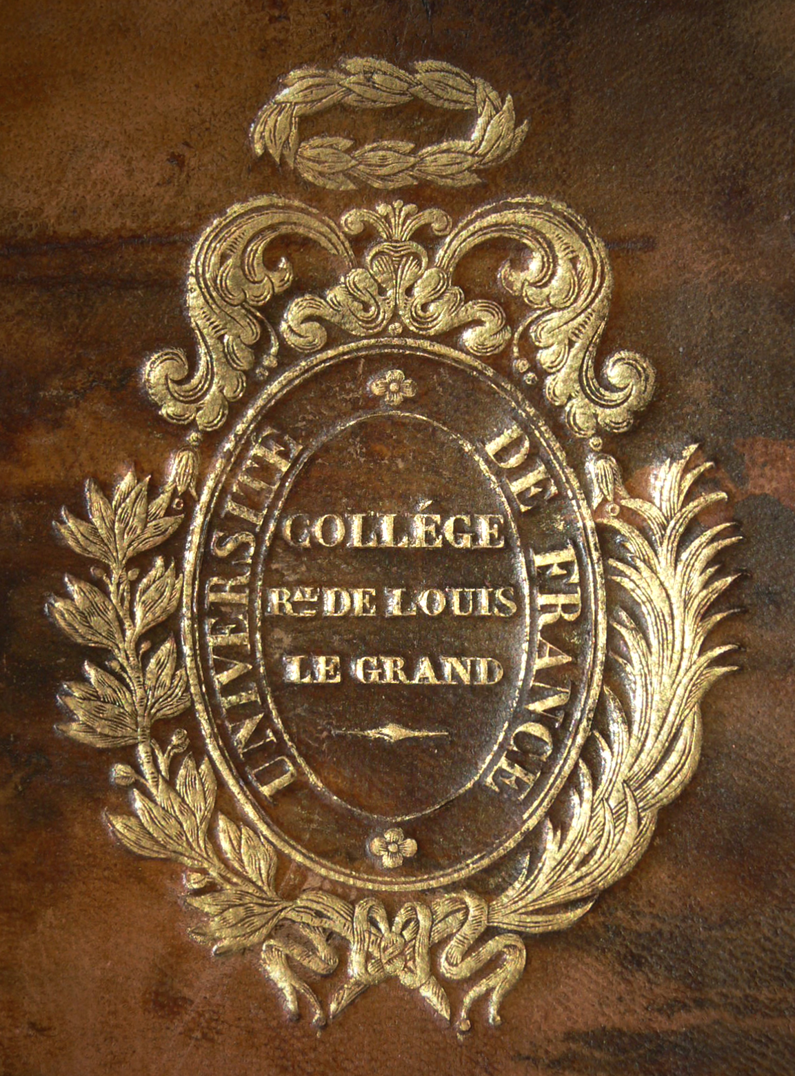 Coats of arms of the "collège royal Louis-le-Grand" (now Lycée Louis le Grand, in Paris 5th arrdt) on a veal binding of Tacitus